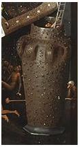 The Garden of Earthly Delightsdetail: Cup from Hieronymus Bosch's painting The Garden of Earthly Delights.